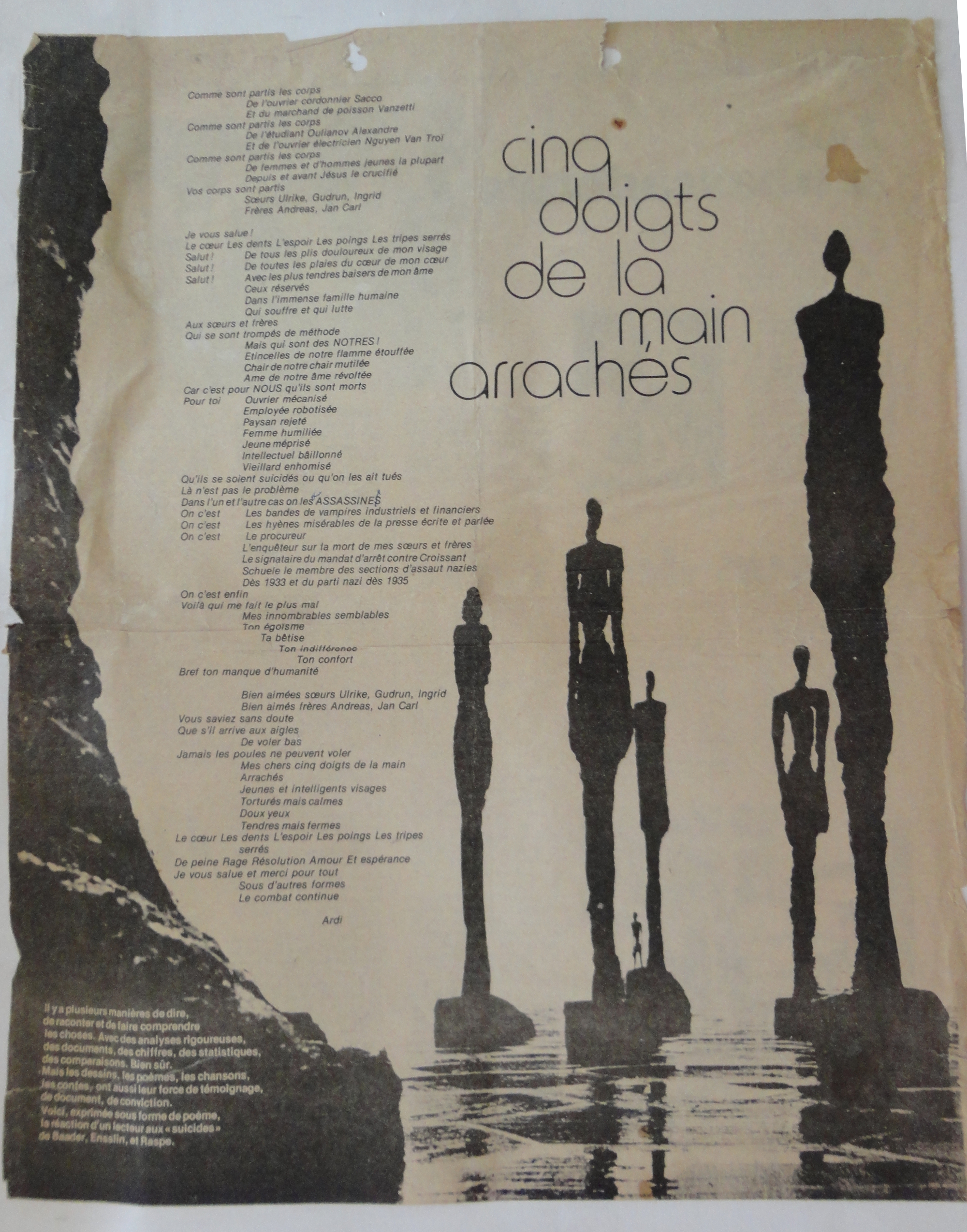 First poem of Kadour Naimi, Cinq doigts de la main arrachés(Five fingers of the hand ripped), published in the weekly POUR la révolution (FOR the revolution), 7-13 December 1977 Brussels (Belgium).